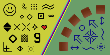 Hq3x-scaled image